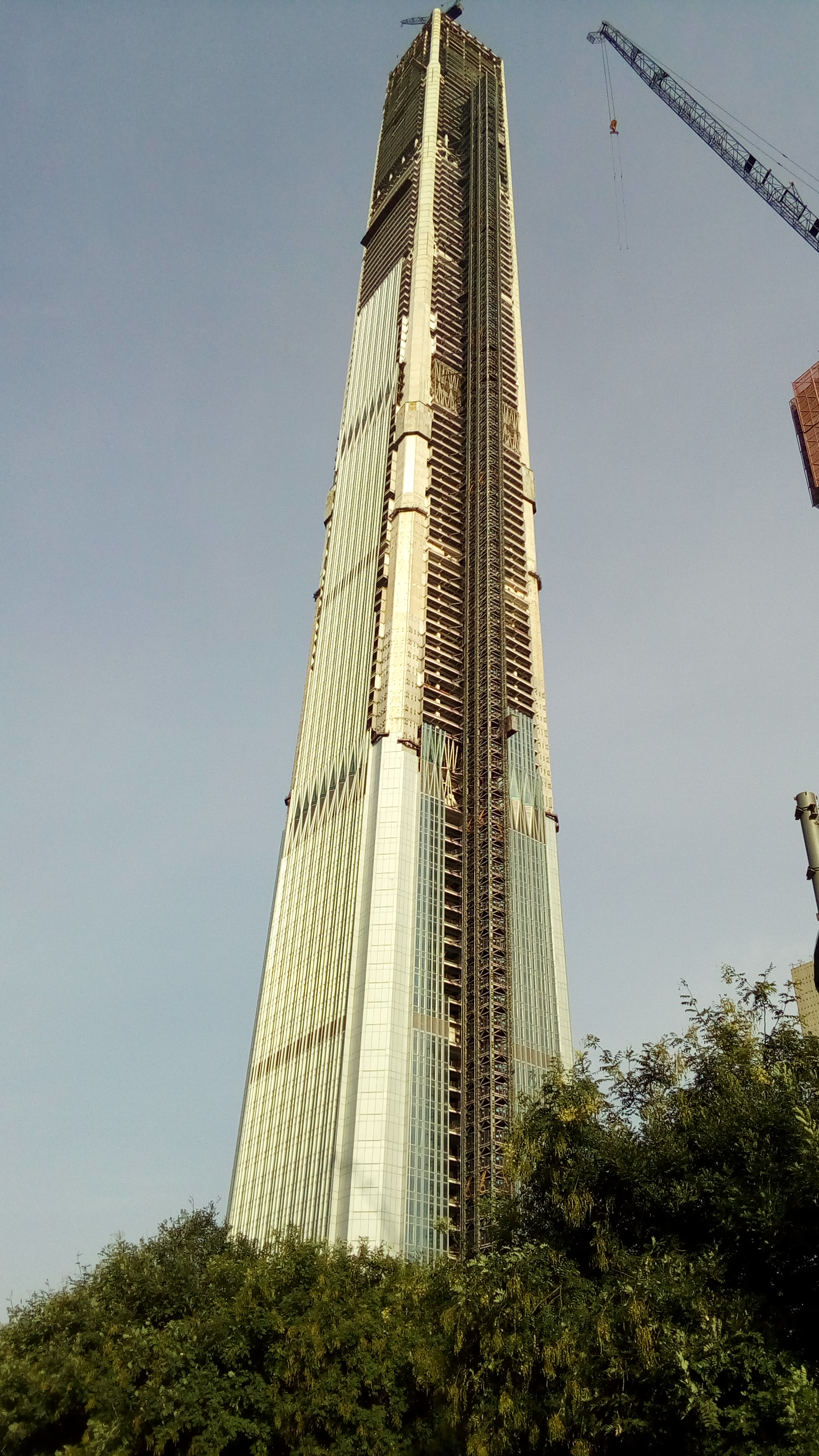 The Goldin Finance 117 Skyscraper not yet finished